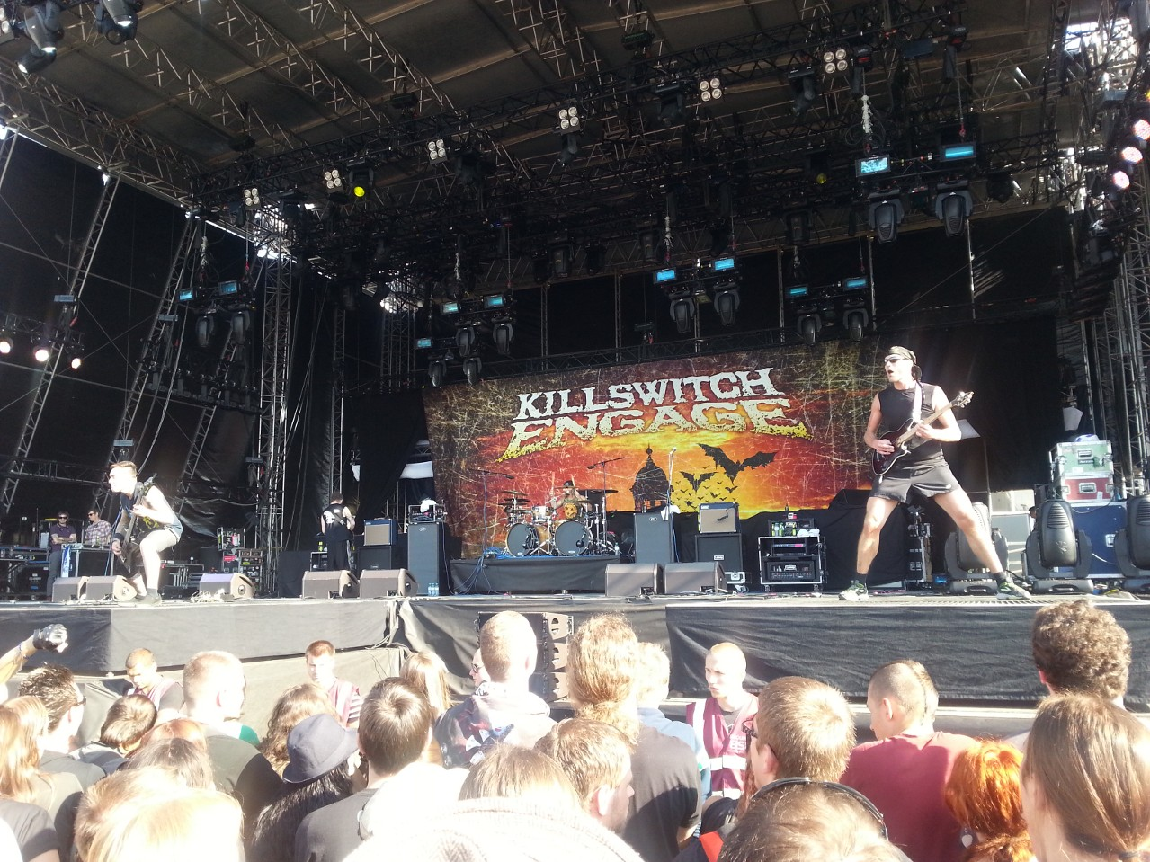 Killswitch Engage playing on Aerodrome festival 2013, Prague